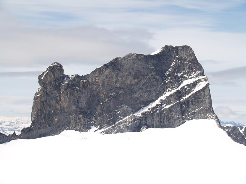 Photo shot August 2005 - Skarstind seen from the east